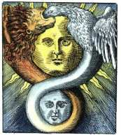 Book illustration from Azoth ou le moyen de faire l'oder Cache des Philosophes (Paris) 1659 by Basil Valentine